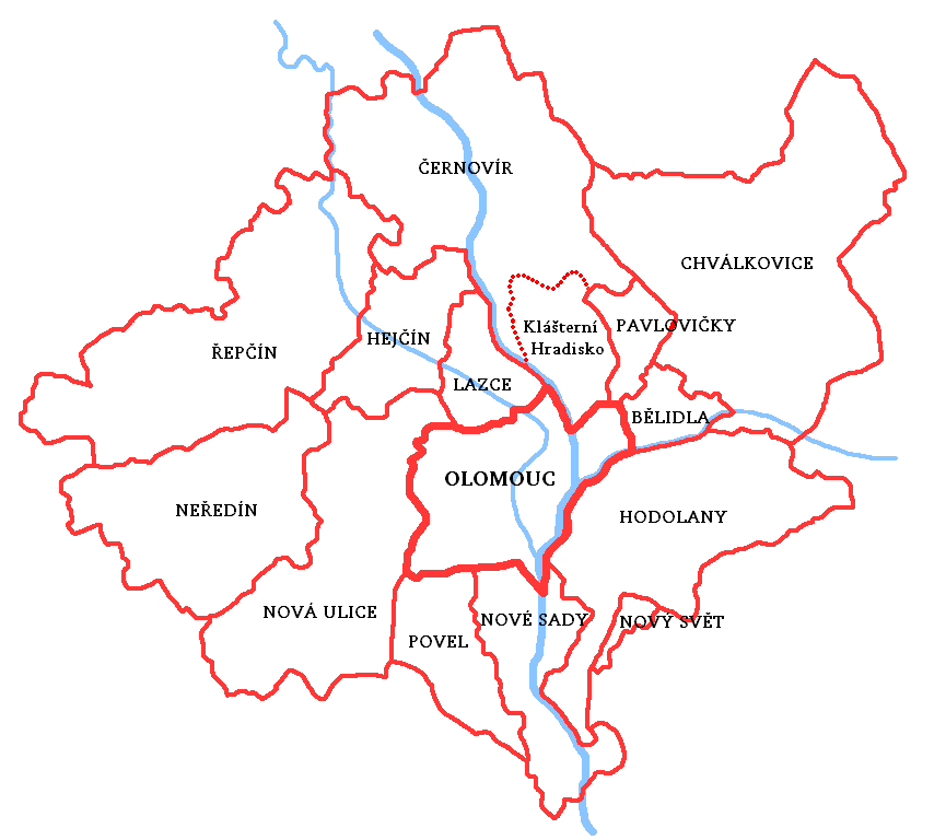 Map of Great Olomouc